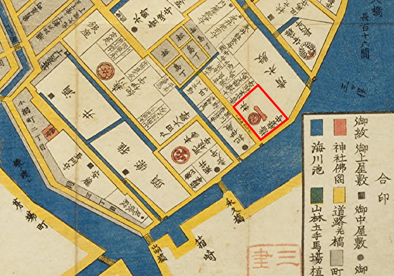 Residence of Hayashi clan at Edo